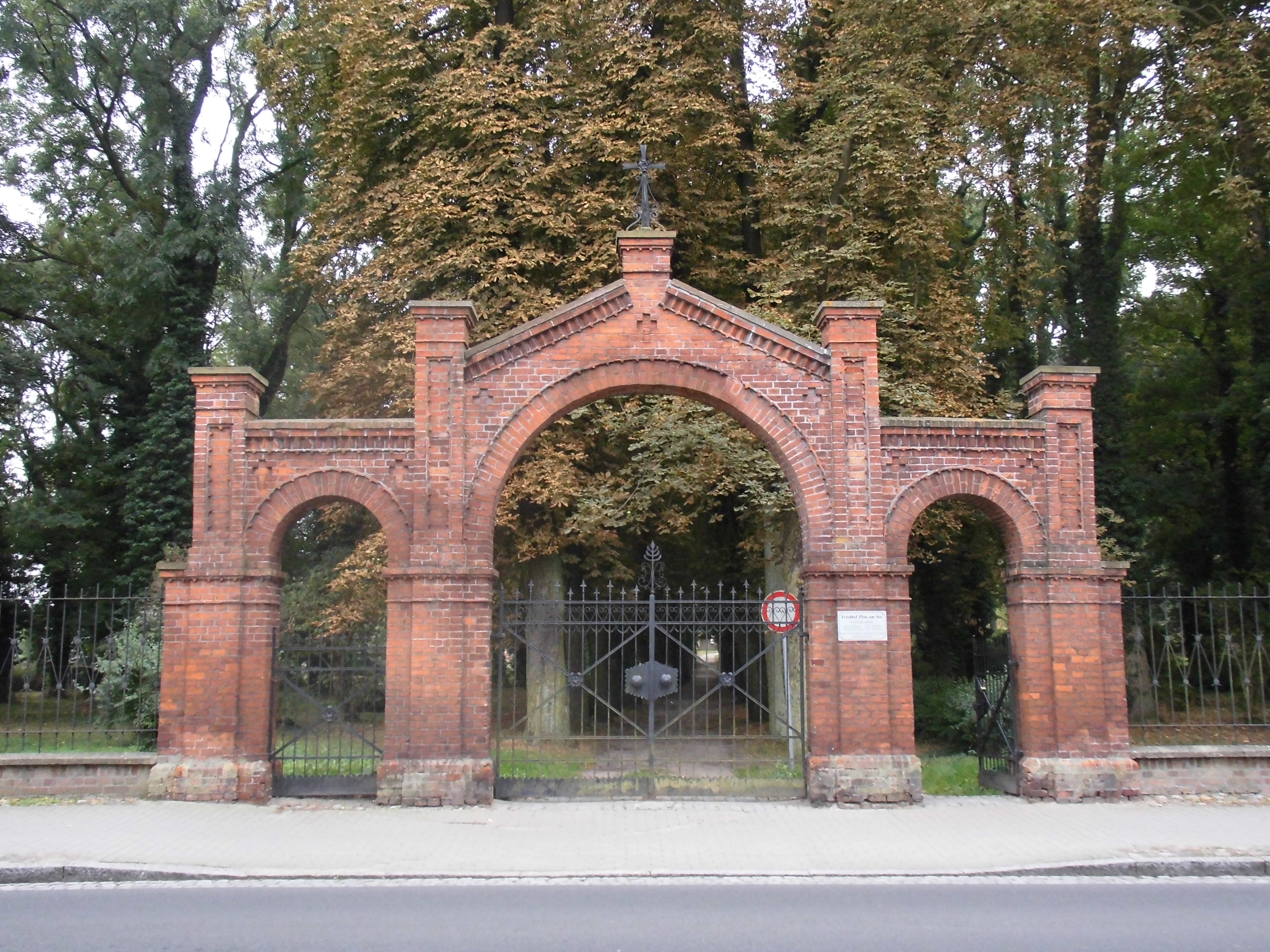 entrance to the cemetery of Plau am See